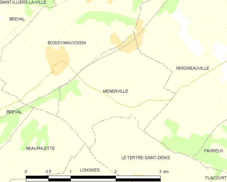 Map of French municipality Ménerville